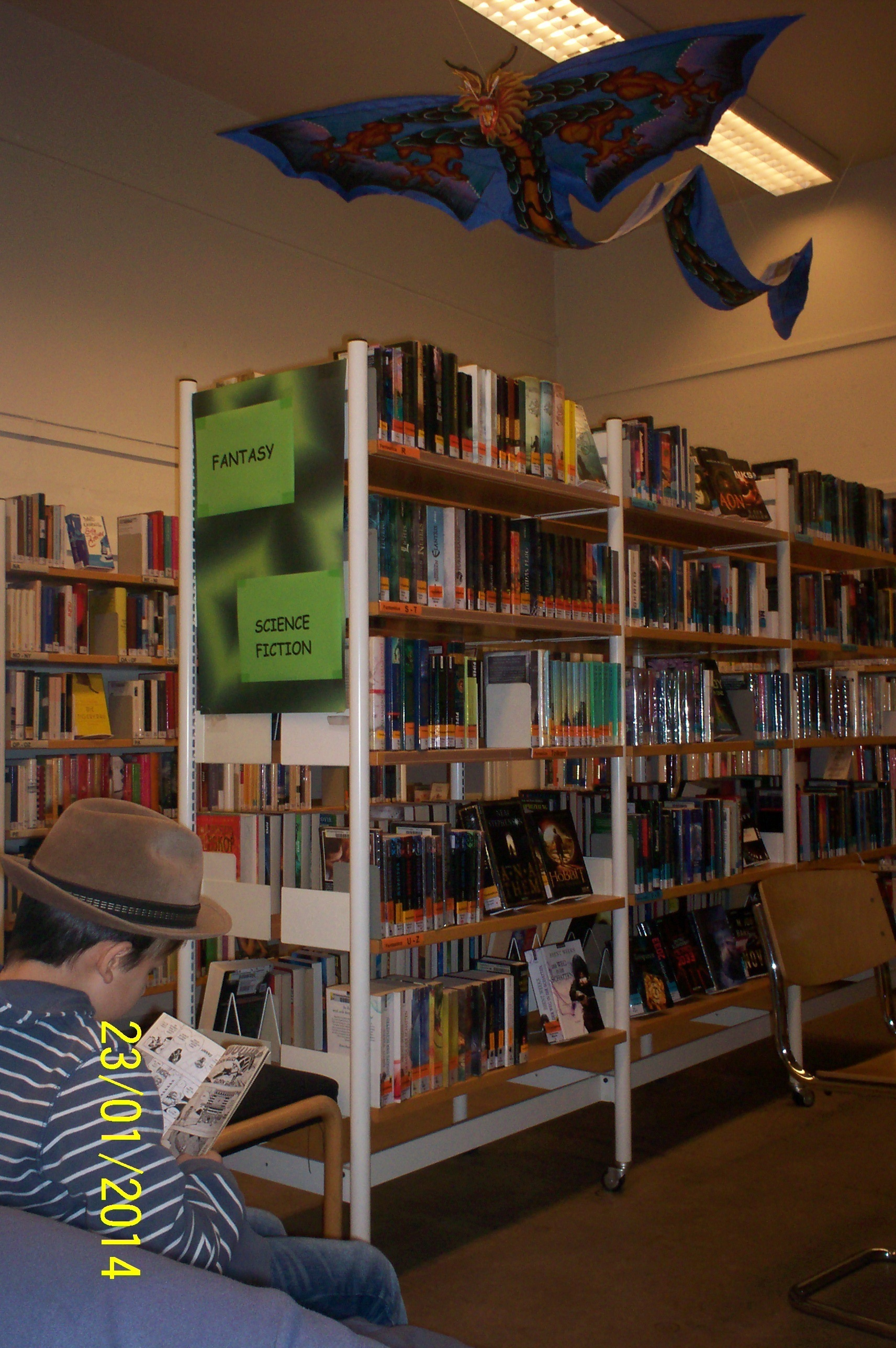 Raumer Library, Berlin, room at Dudenstraße #18